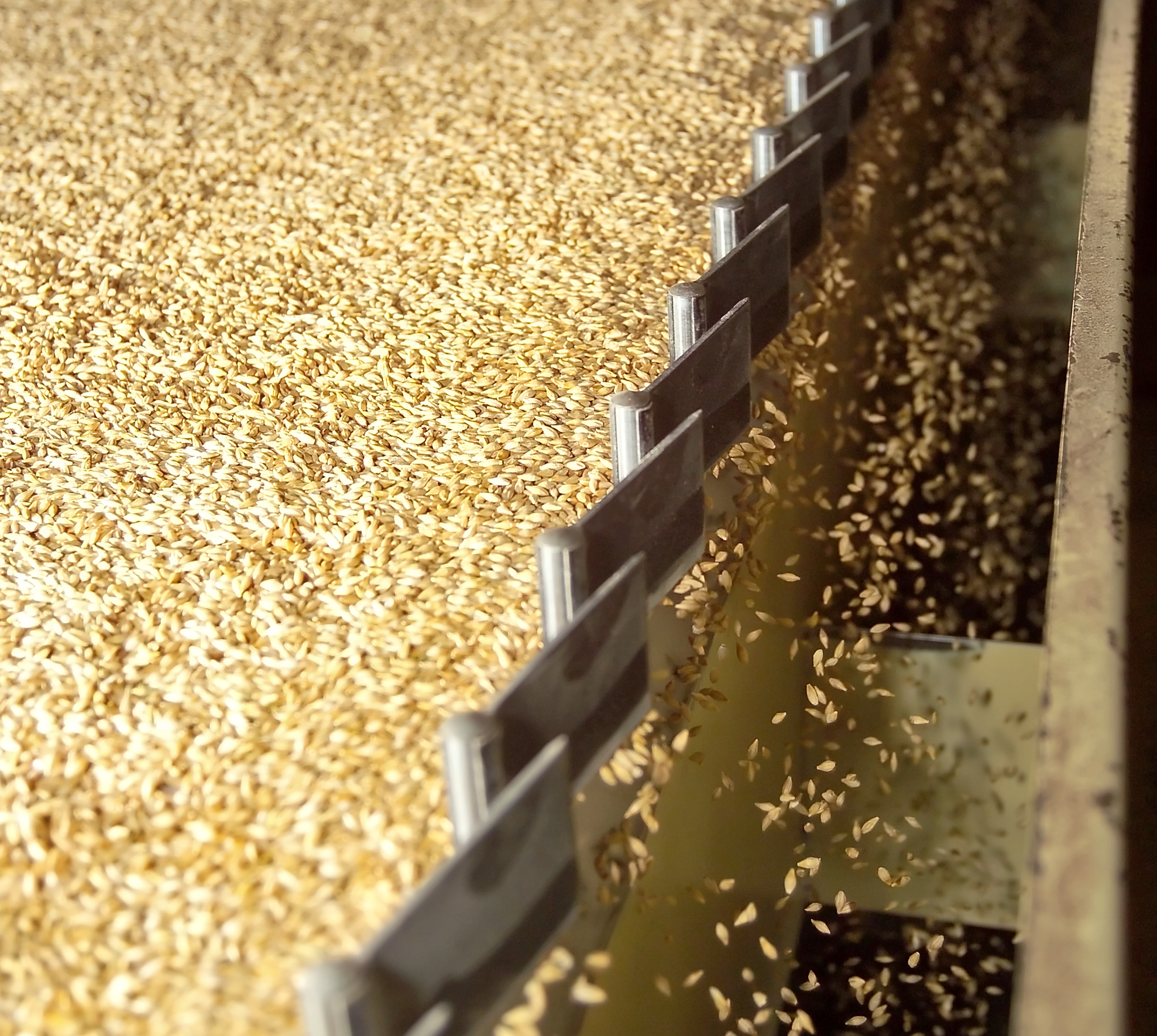 Density table for sorting seeds by density